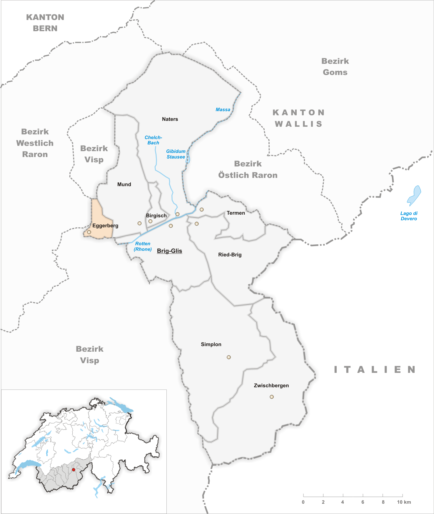 Municipality Eggerberg